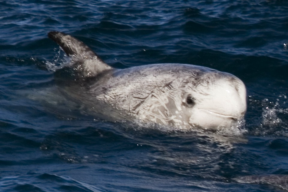 Risso's Dolphins - on a boat trim 30 miles out and back from Port San Luis, Harford Pier, at Avila Beach, CA